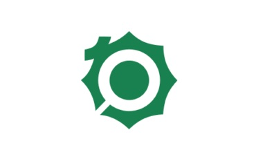 Flag of Kagamiishi Fukushima